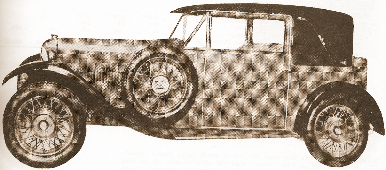 1929 Whitlock Sportsman's coupe